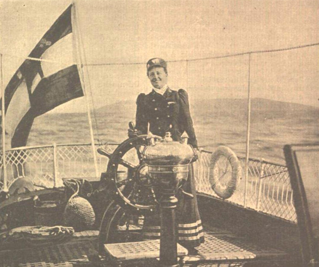 Archduchess Maria Dorothea of Austria on a yacht